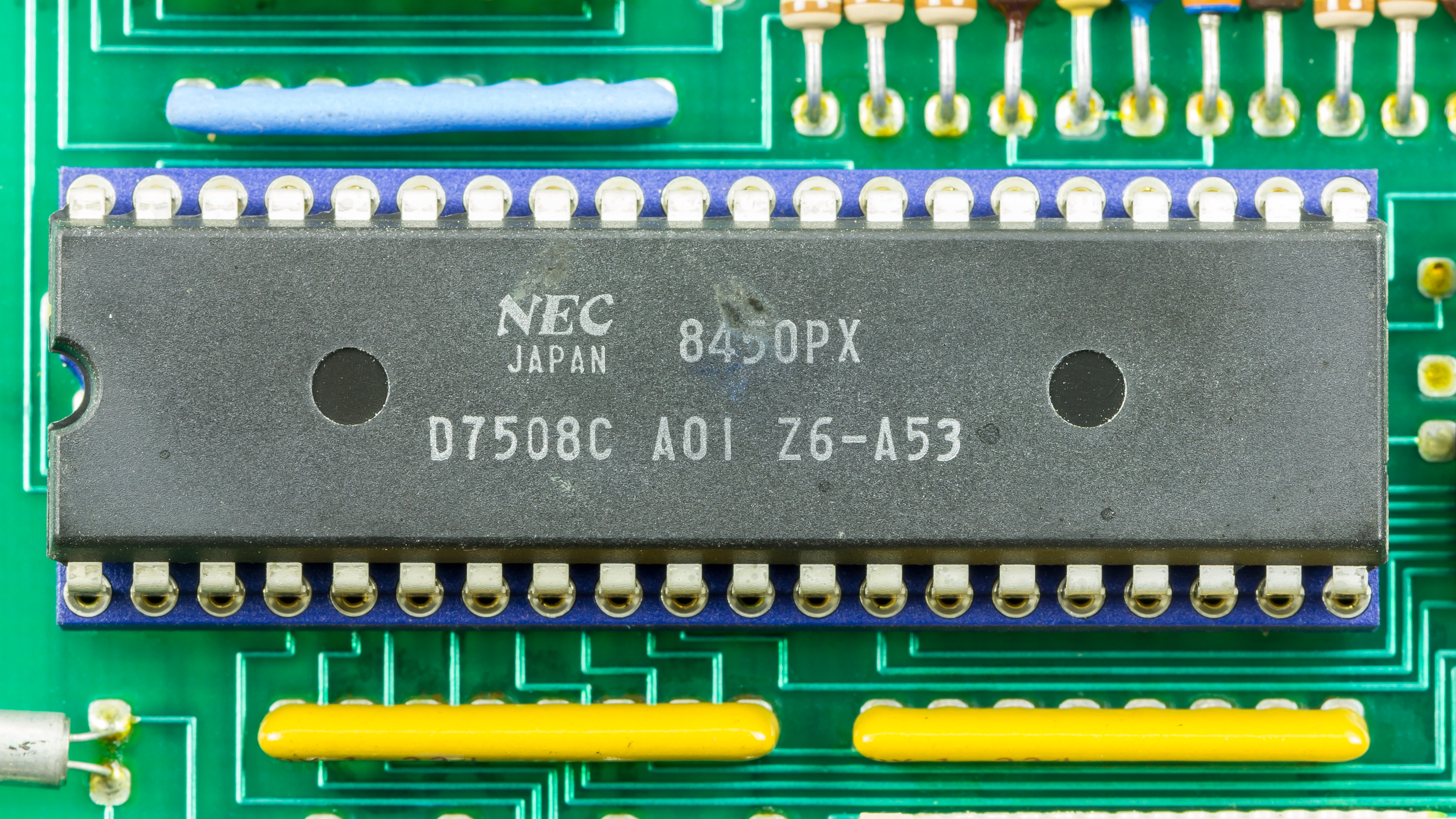 FeAp 92-1a - keyboad and display PCB - NEC D7508C